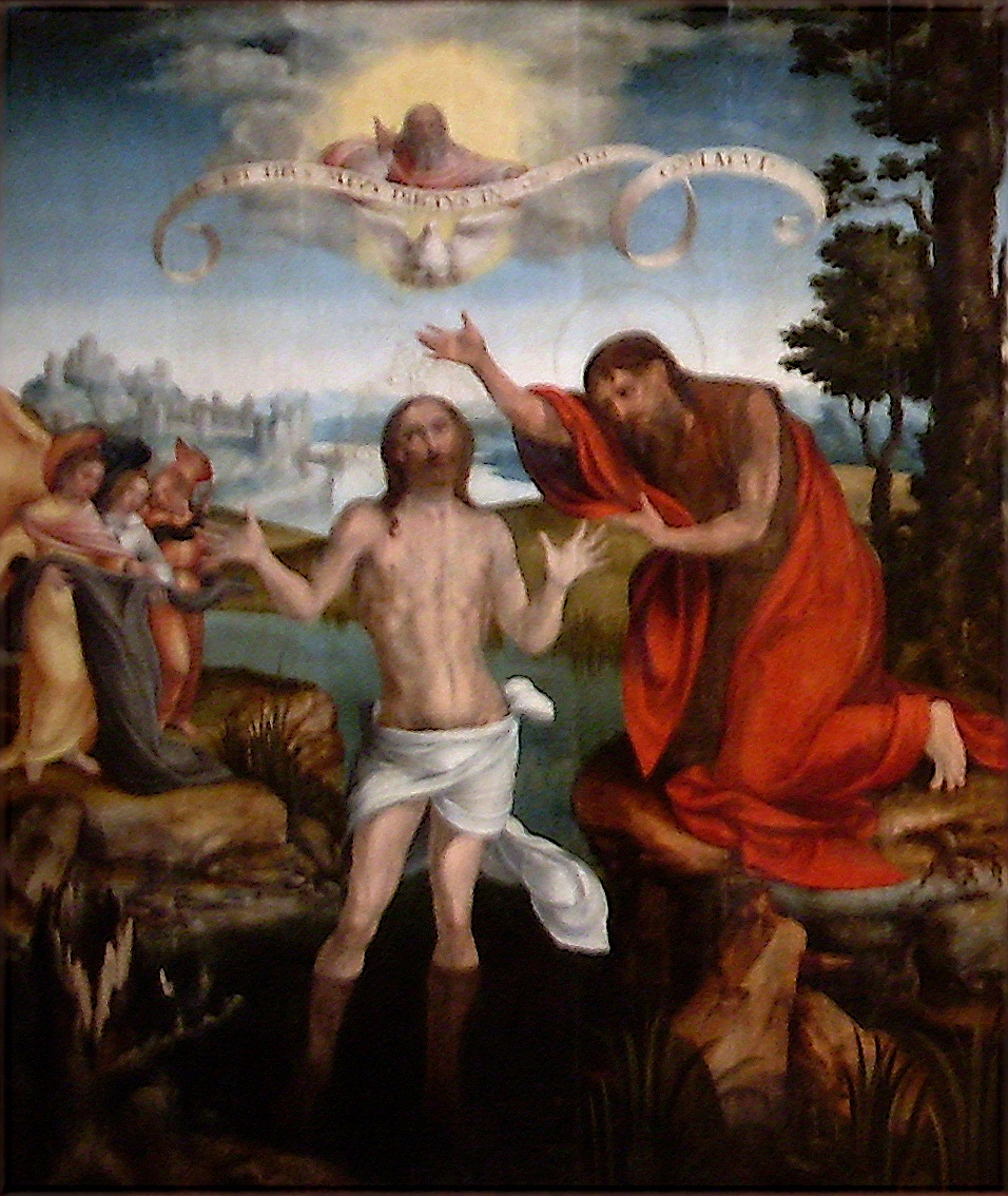 Panel from the altarpiece from the Mosteiro da Trindade